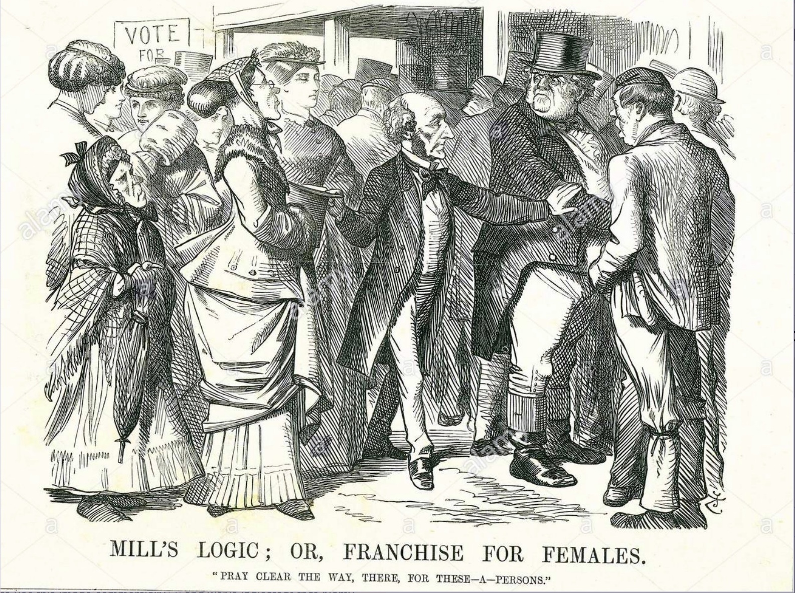 "John Stuart Mill asks an indignant John Bull to let women cast their vote." [1] The woman next to Mill second from the left is the suffragist Lydia Becker.